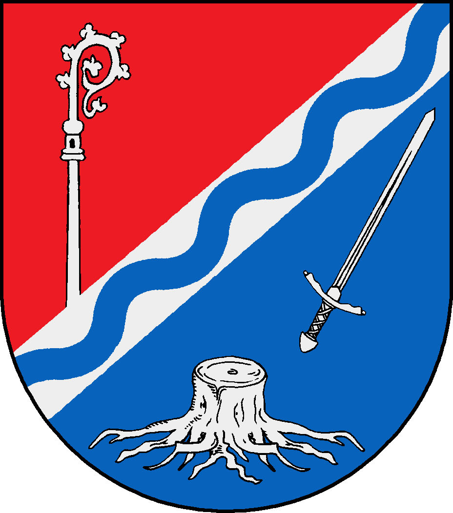 Coat of arms of the municipality Wesenberg in Schleswig-Holstein, Germany.